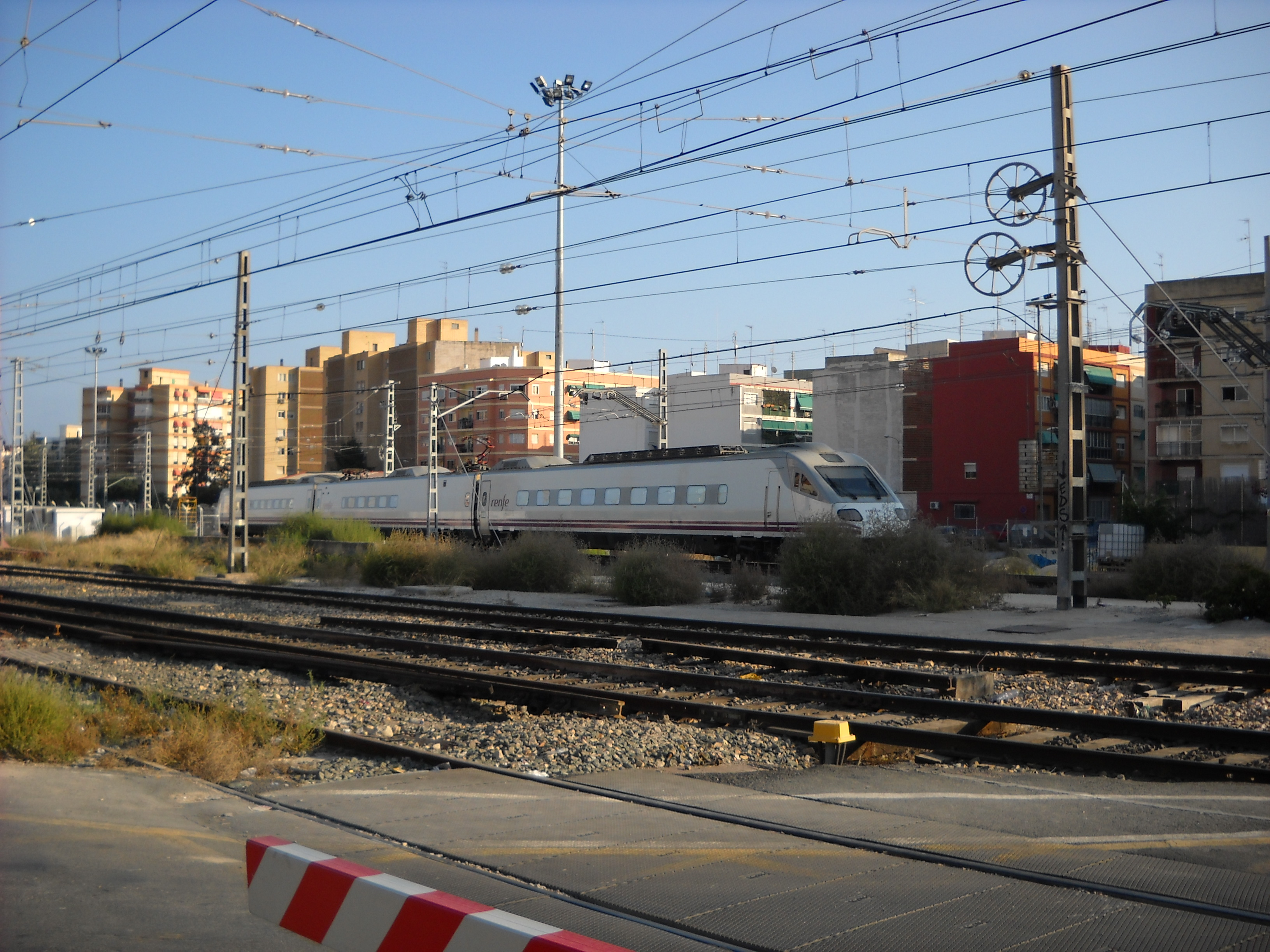 A train on its way to Alicante